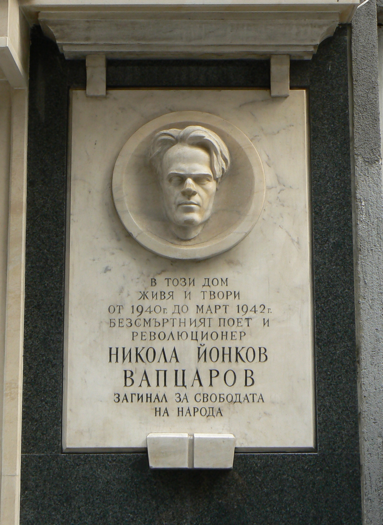 Sofia, the building on the corner of "Khan Asparuh" and "Angel Kanchev" streets, where Nikola Vaptsarov used to live. Next to the entreance there is a memorial plaque